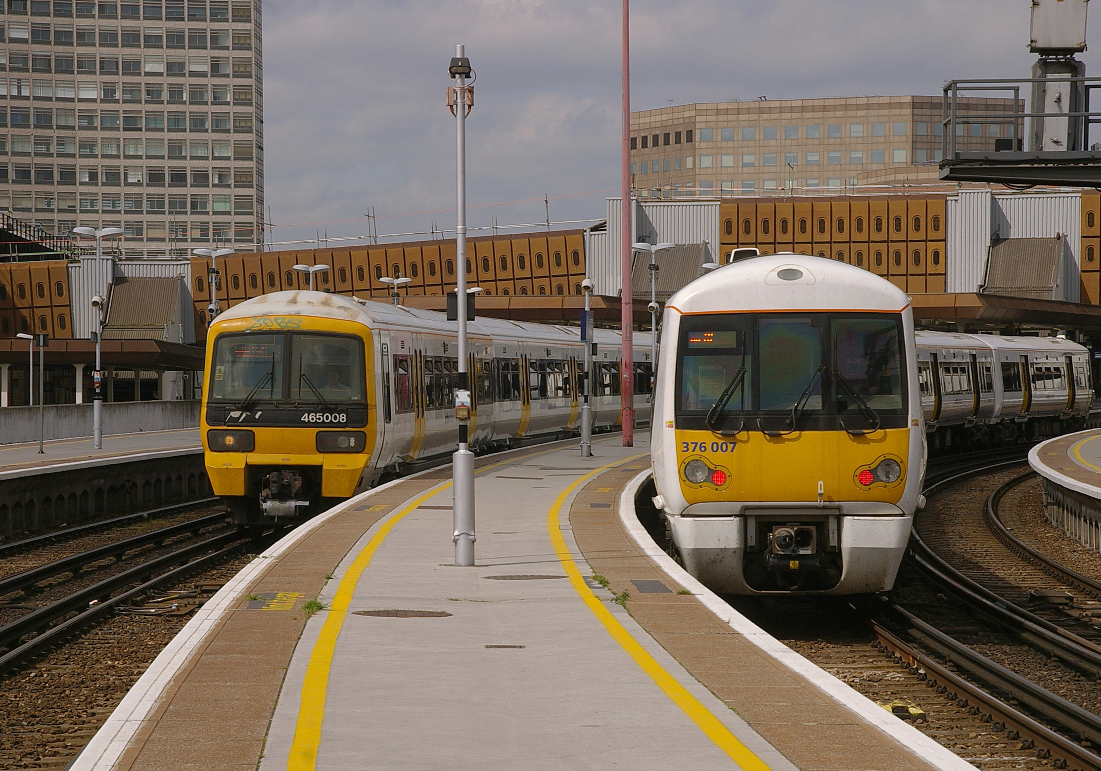 Southeastern 465008 and 376007 at London Bridge railway station's through platforms.